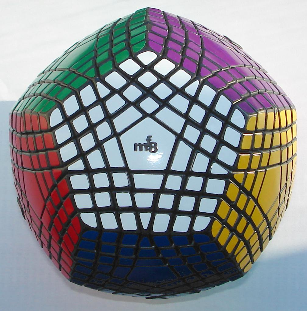 Mf8 Teraminx, black body.